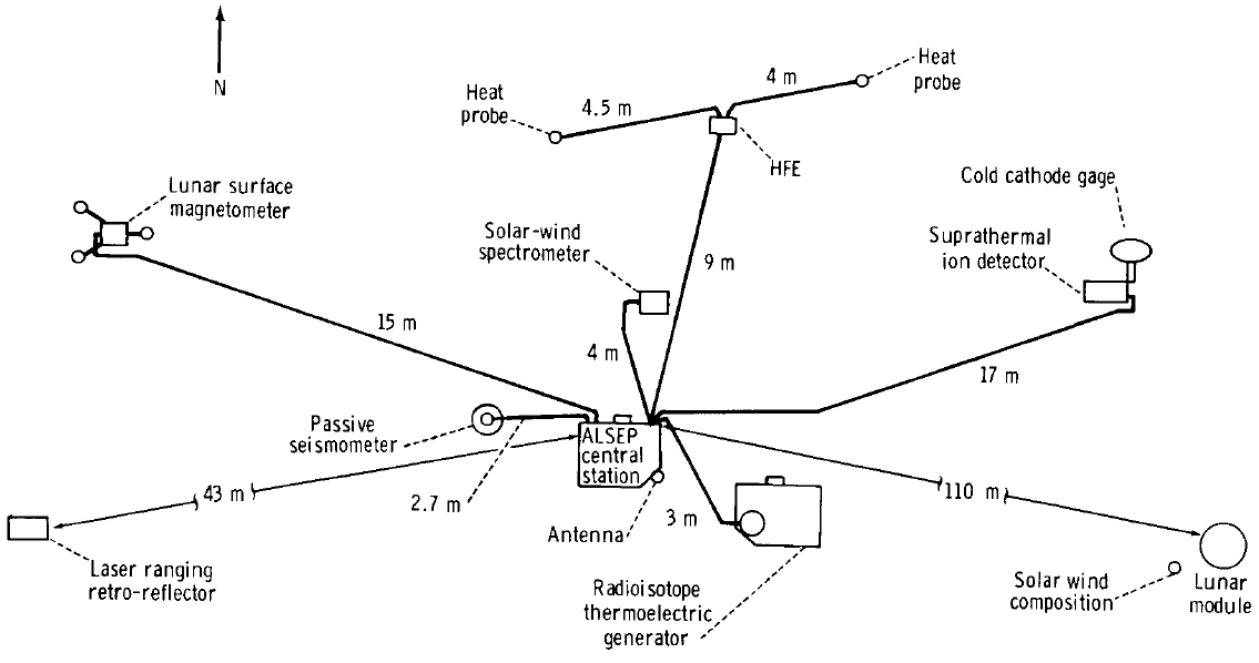 Arangement for Apollo 15's ALSEP.